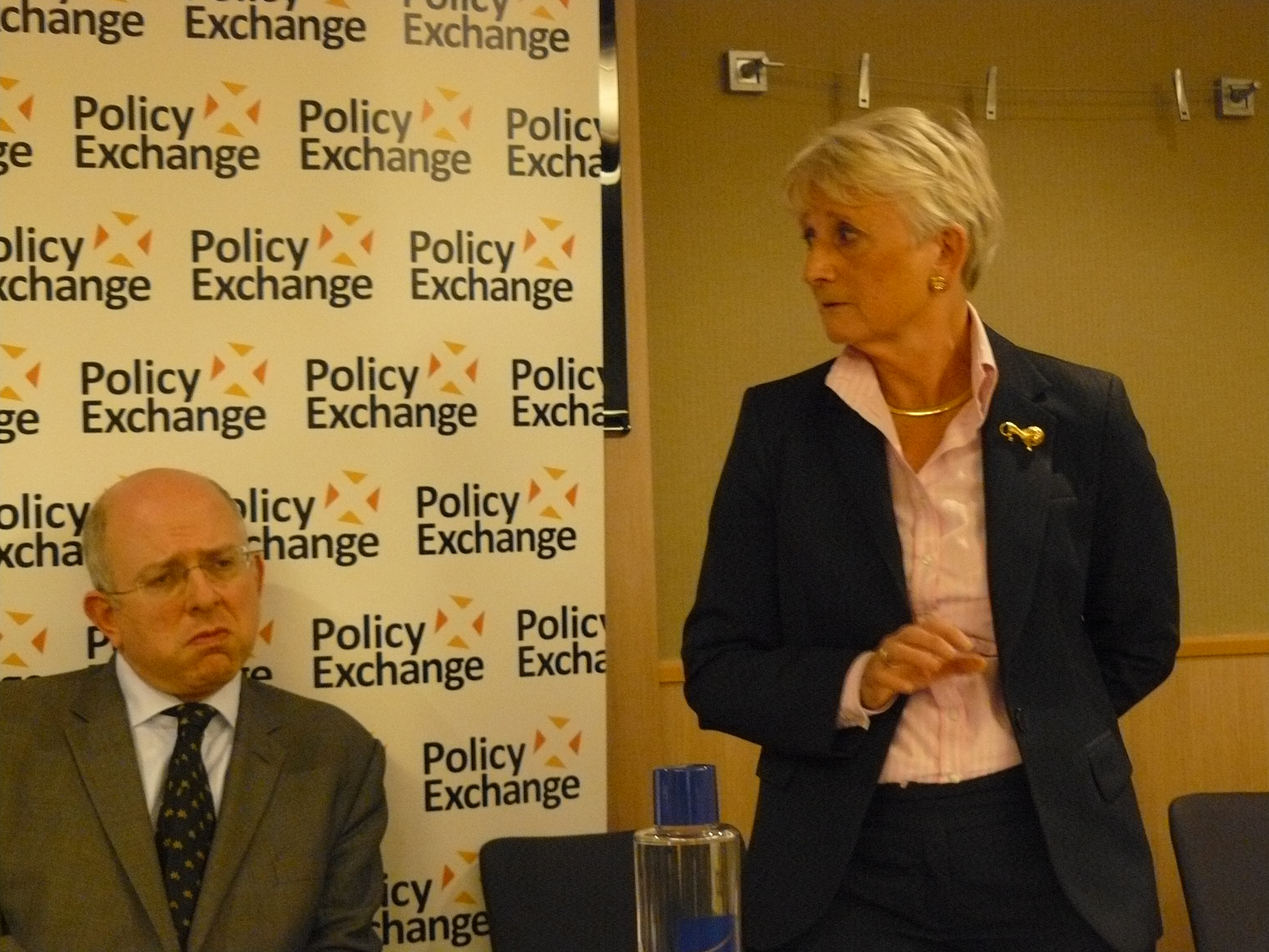 Policy Exchange Conservative Conference Fringe Event: Is our security being compromised by the judges? 04.10.11